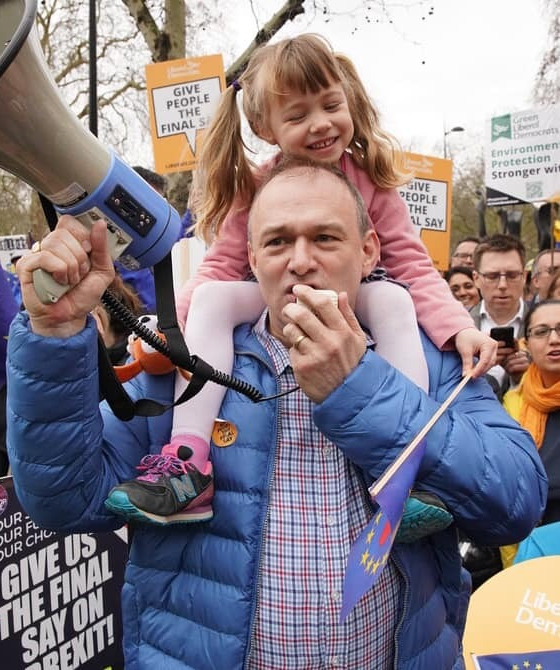 Ed Davey with daughter at a peoples' vote rally in London 2019